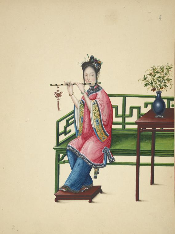 China watercolours from 1800s. Woman playing a dizi.